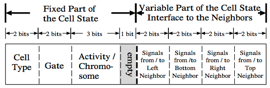 Bit layout of a CoDi CA cell 16 Bit